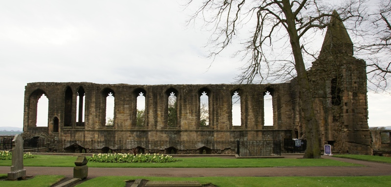 Dunfermline Abbey, Fife, Scotland - refectory (in the south wing) from the north